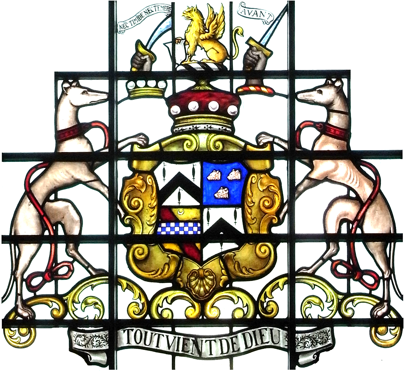 Trefusis heraldic achievement, detail from one of three large stained glass windows on grand staircase of Bicton House, Devon, seat of John Rolle, 1st Baron Rolle (d.1842), who married secondly in 1822 Louisa Trefusis (1794–1885), daughter of Robert George William Trefusis, 17th Baron Clinton (1764–1797). Quarterly of 4: 1&4: Argent, a chevron between three spindles sable (Trefusis); 2: Azure, three boar's heads couped argent muzzled gules a cross crosslet argent for difference (Forbes of Pitsligo); 3: Or, a bend gules surmounted by a fess chequy azure and argent in chief a crescent azure a canton ermine for difference (Stuart) (Source: Debrett's Peerage, 2015, p.258, Baron Clinton (Fane-Trefusis), with some different depictions here))